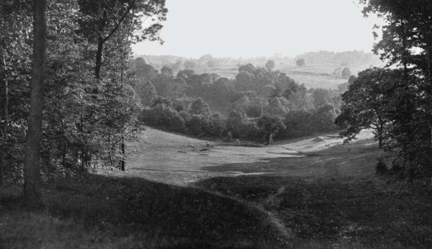 View from the 4th tee of the Golf Course at Merion East